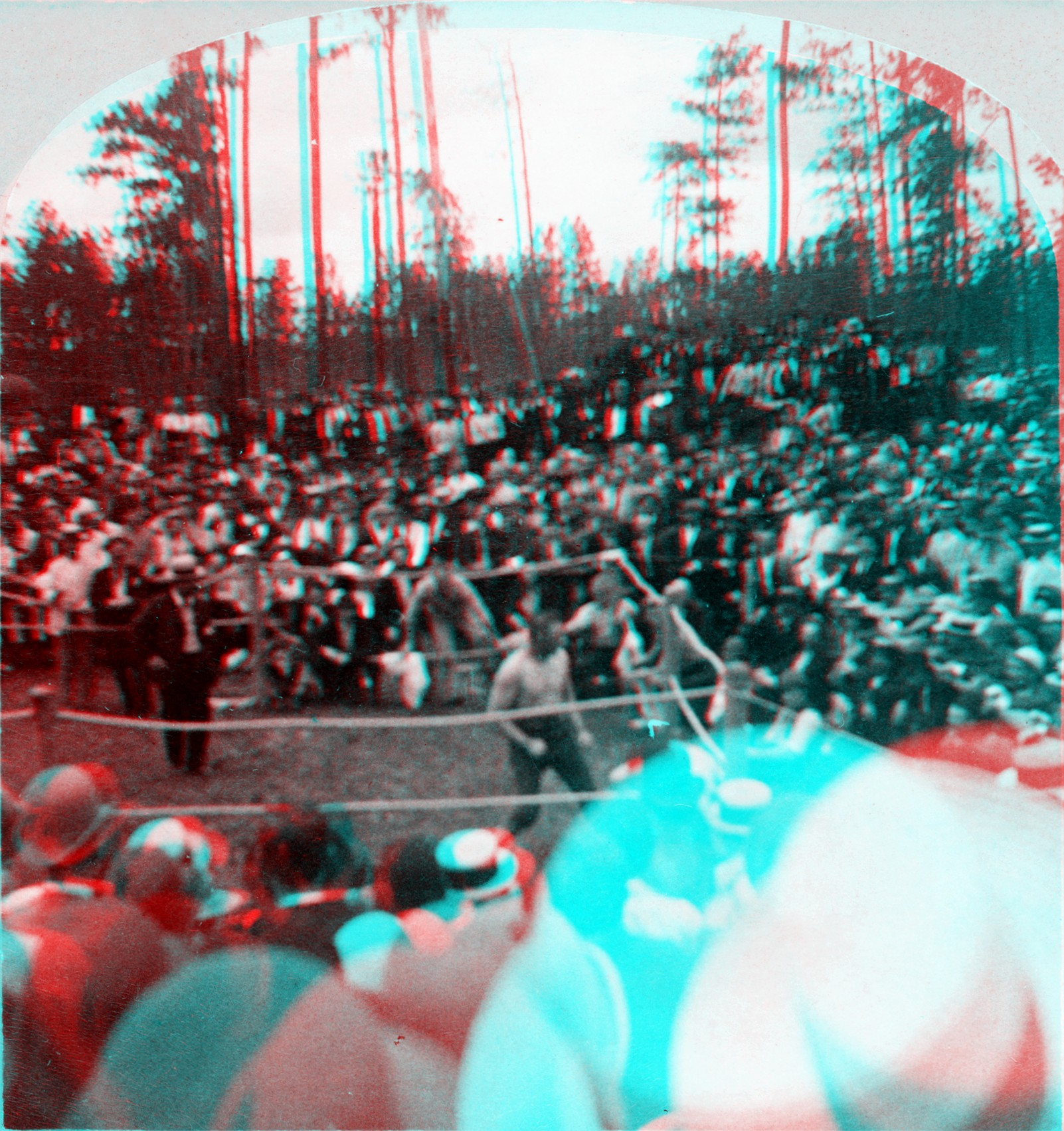 Stereocard of John L. Sullivan - Jake Kilrain fight, 1898. "Kilrain knocked through the ropes." Converted to anaglyph by Dave Pape